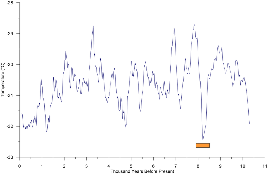 Central Greenland reconstructed temperature. Data